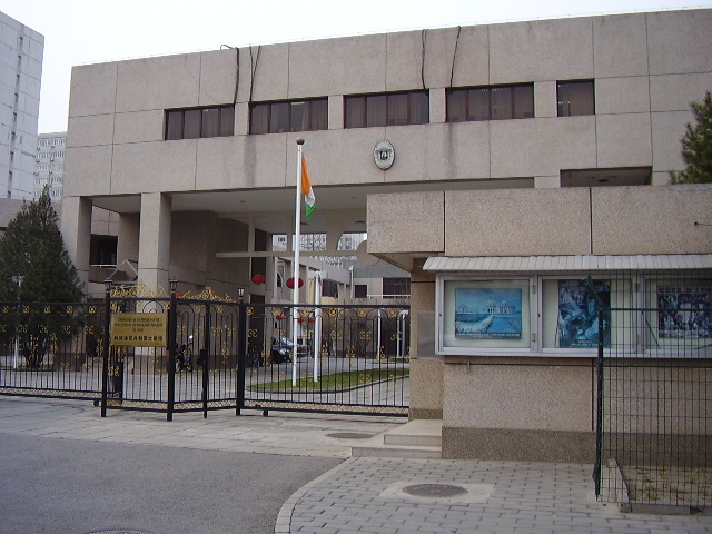 Photograph of the Cote d'Ivoire Embassy in Beijing